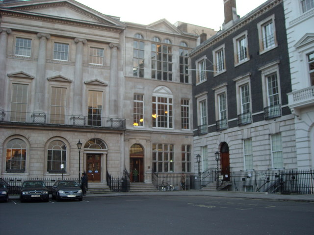 The London Library, St James's Square. Next door, on the right, is the High Commission of Cyprus.